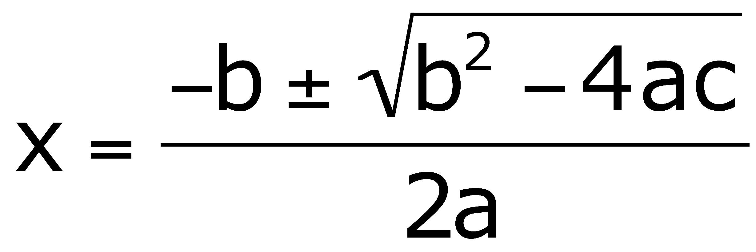 Quadratic formula